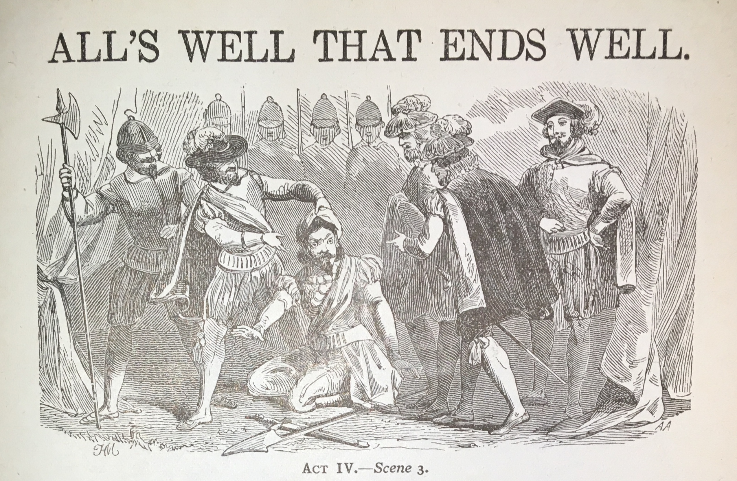 A lithograph image depicting a scene from All's Well that End's Well